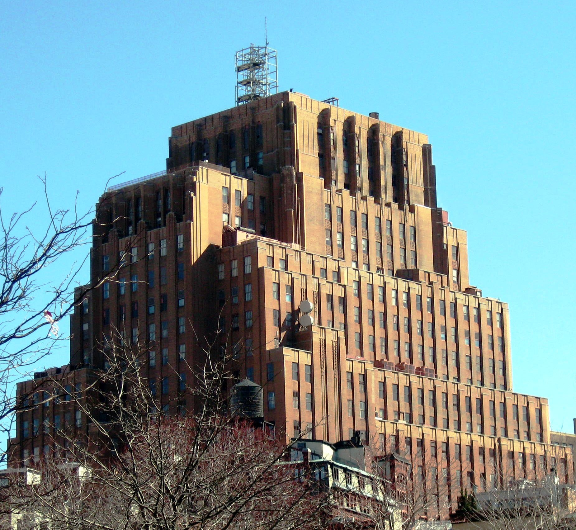 Former Western Union building at Duane Street and West Broadway as seen from the west end of Chambers Street (Manhattan) late on a sunny morning in late winter